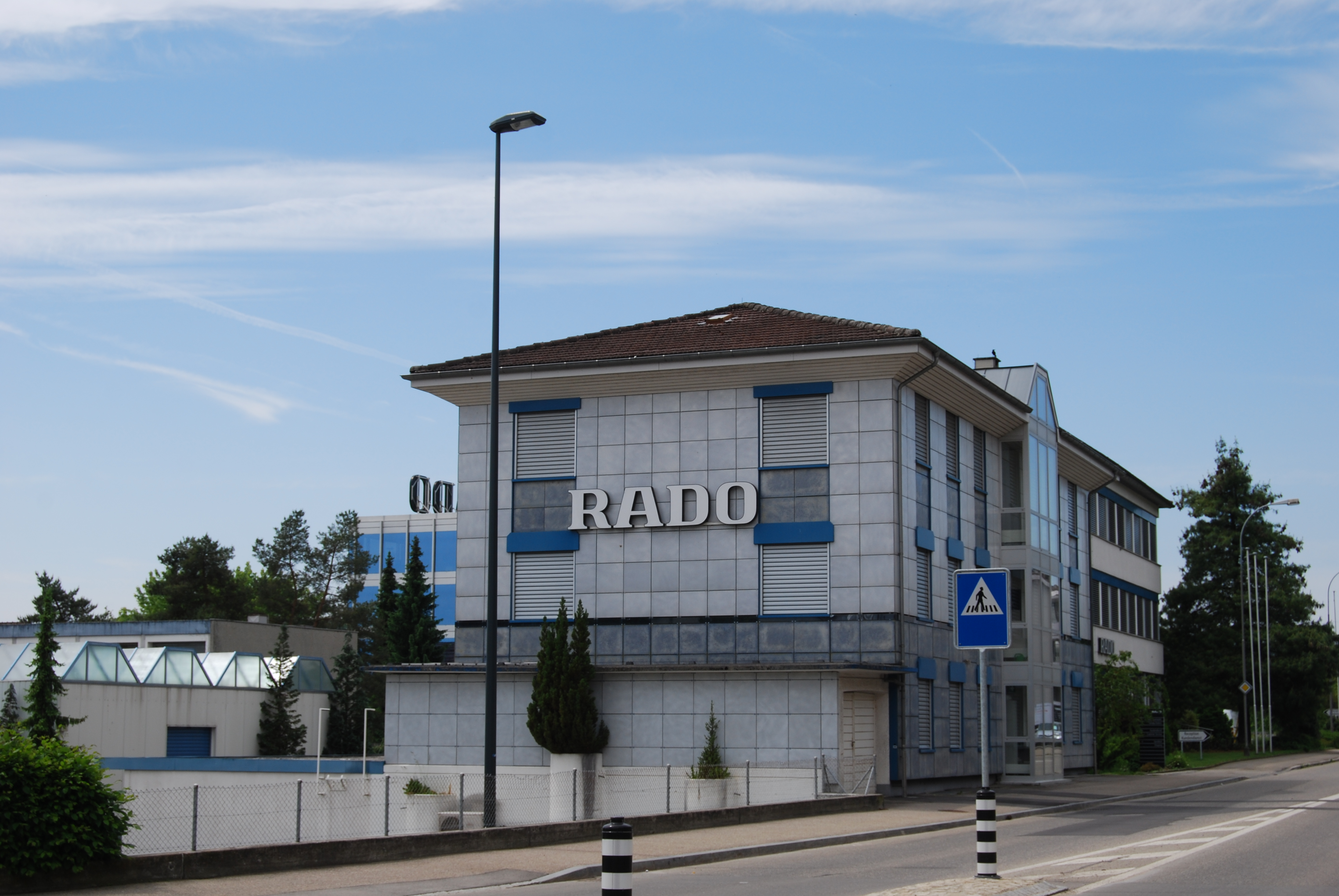 Factory of RADO at Lengnau, canton of Bern, Switzerland